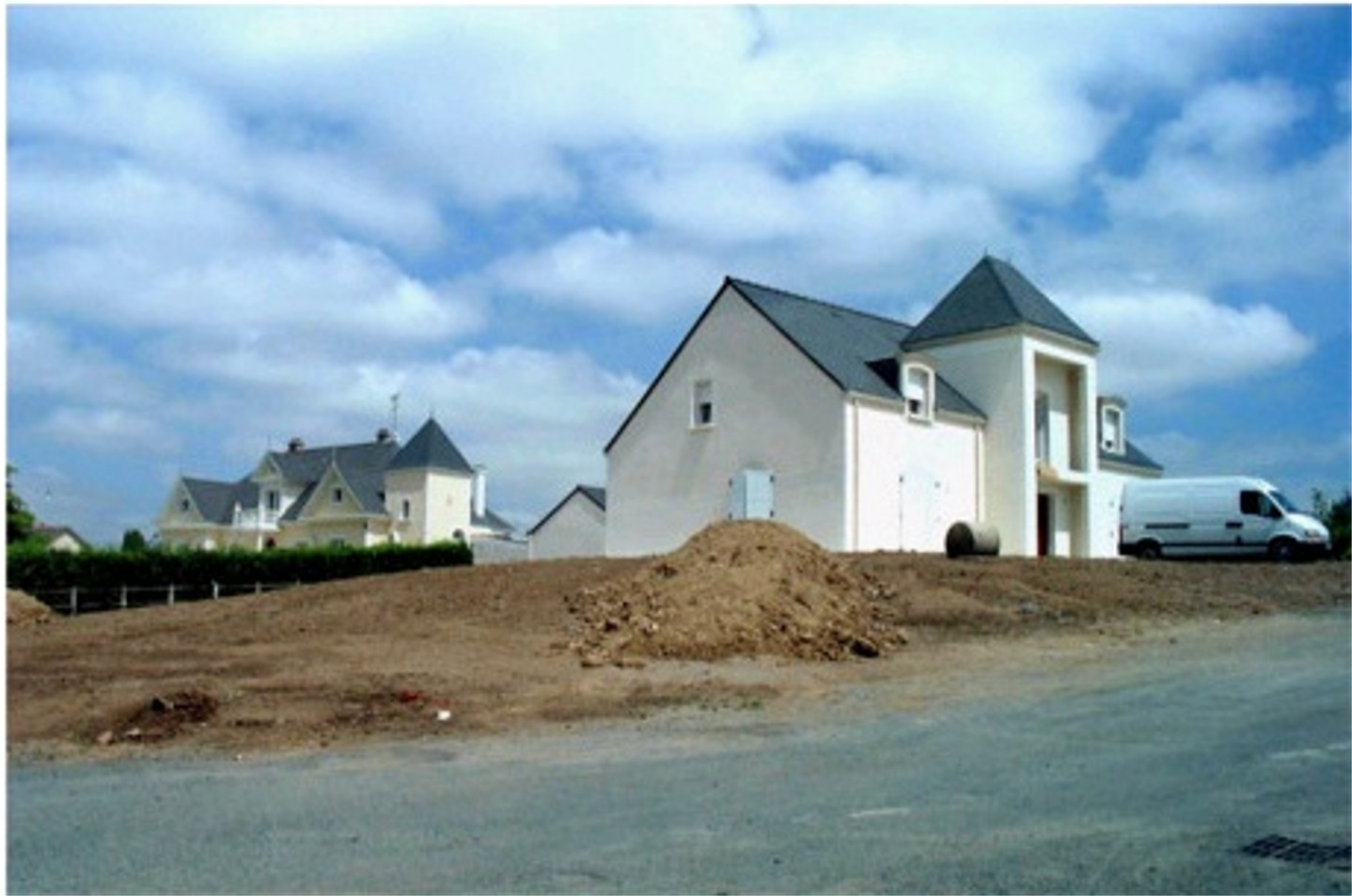 Alotment in Candé, around 2000, Maine-et-Loire, France